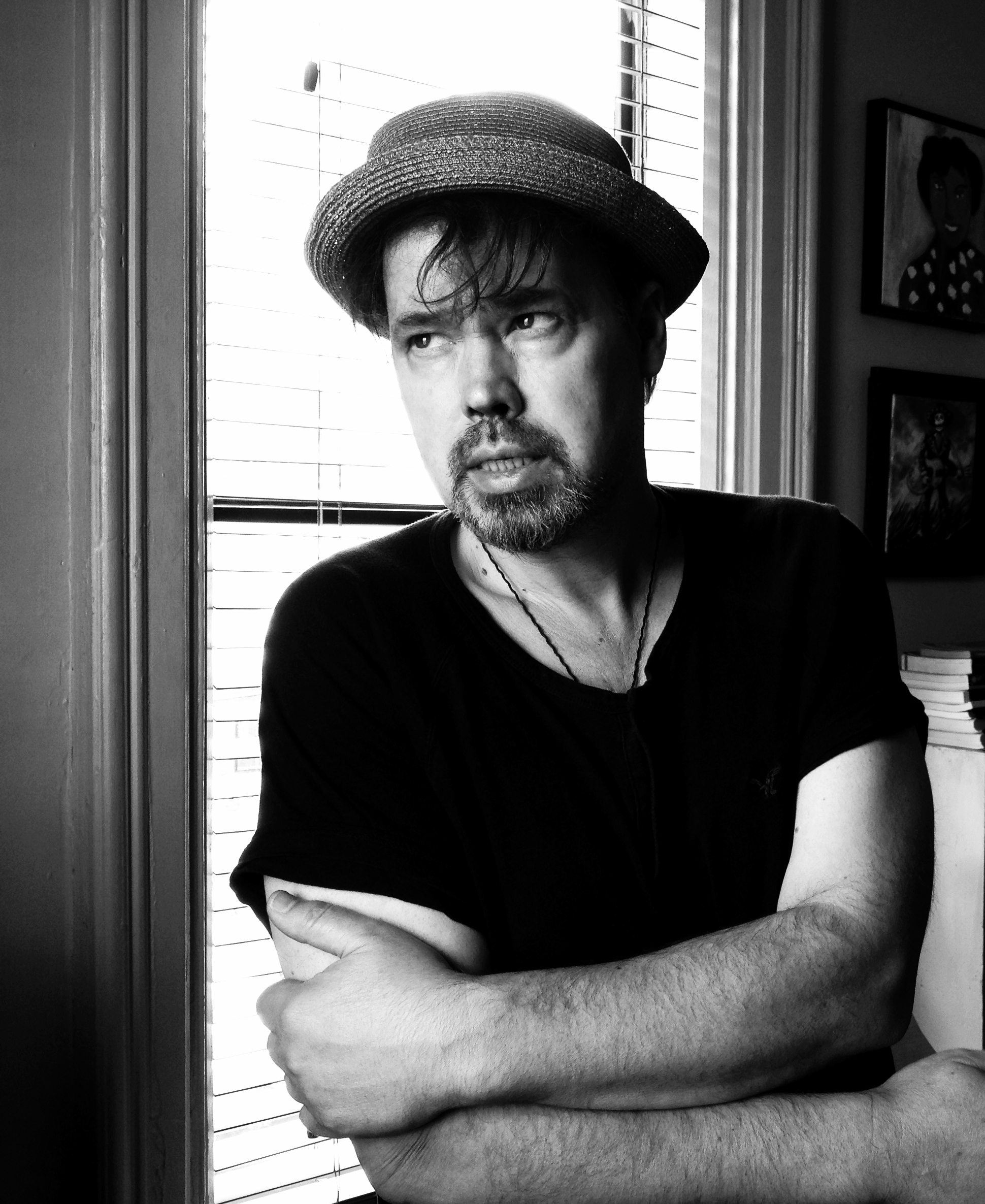 Picture of songwriter Kevin Quain